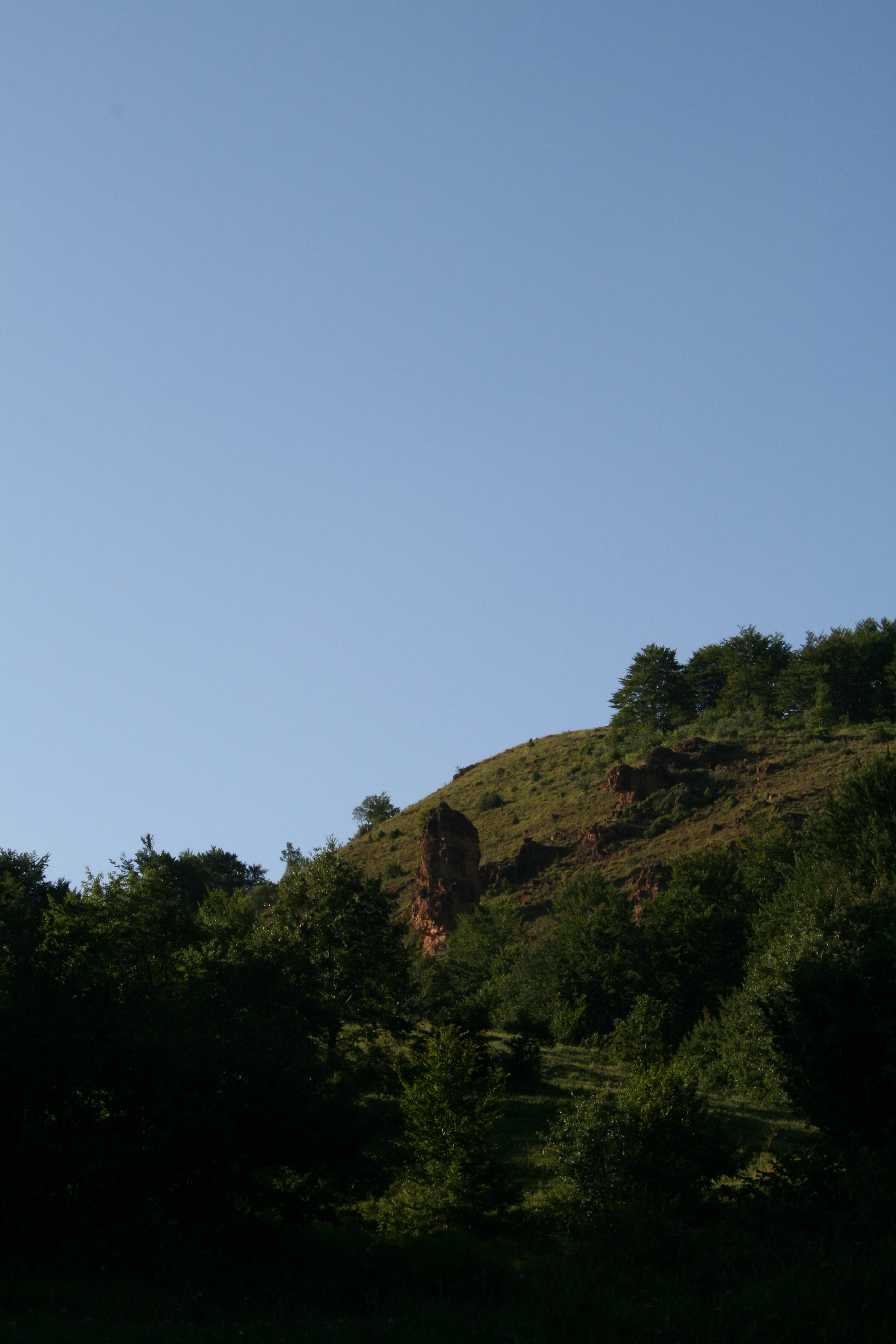 landscape in Trnavica, Kosovo